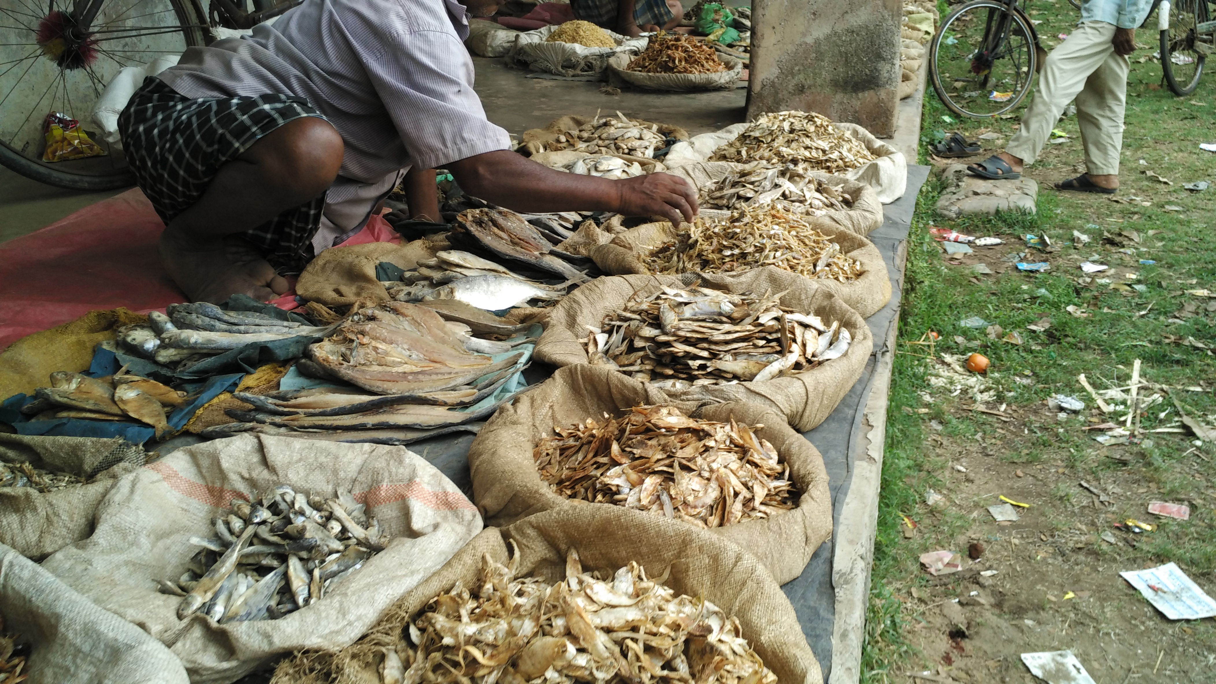 Dried fish at a local market.